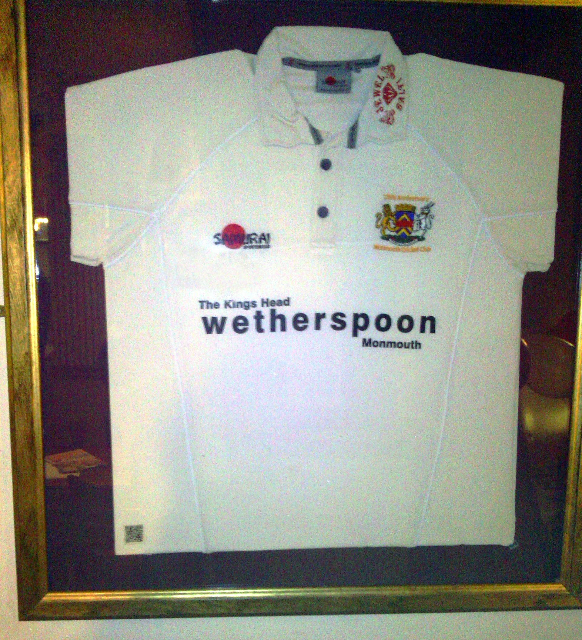 Monmouth Cricket Club shirt in the Kings Head Hotel in Monmouth sporting a QRpedia code as part of the MonmouthpediA project in 2012